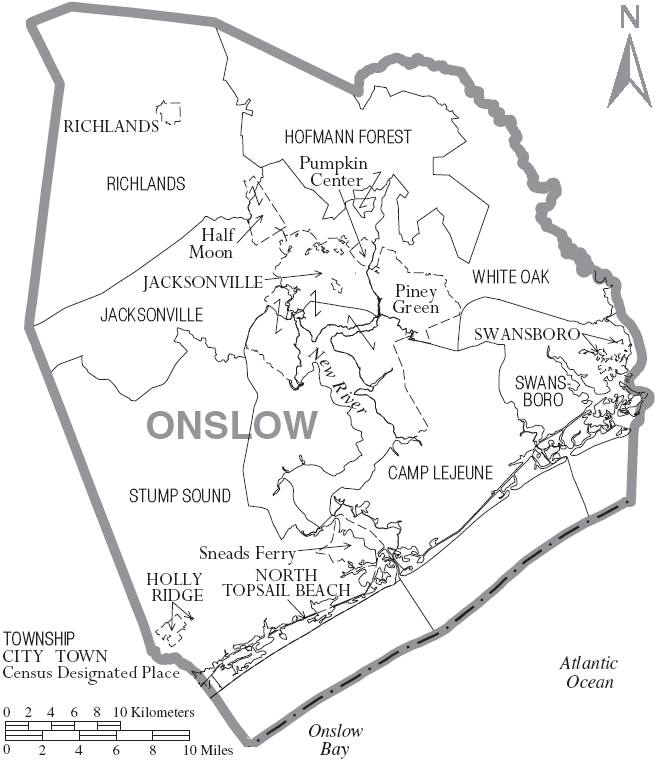 Map of Onslow County, North Carolina, United States with township and municipal boundaries